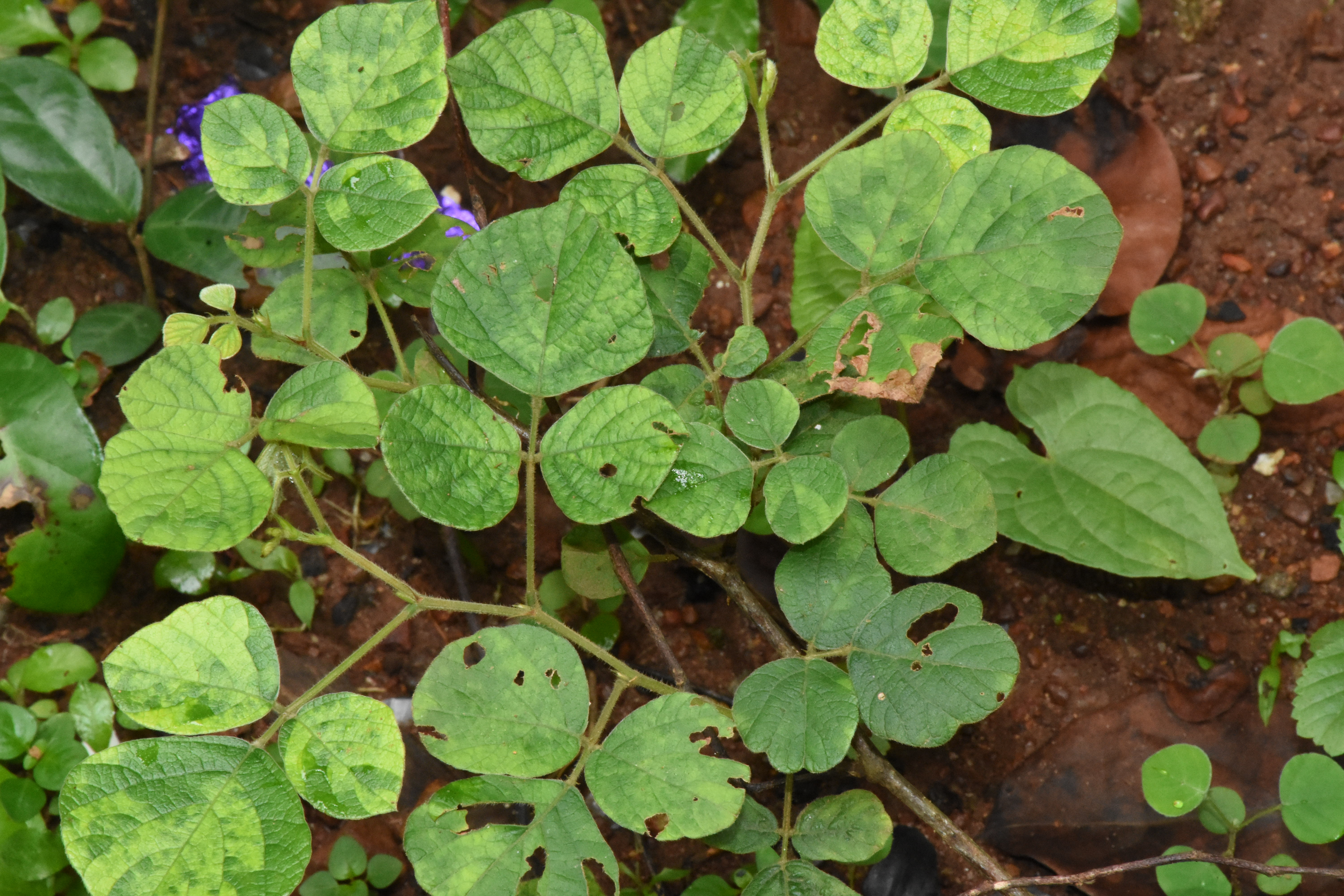 Pseudarthria viscida at Neeliyar Kottam